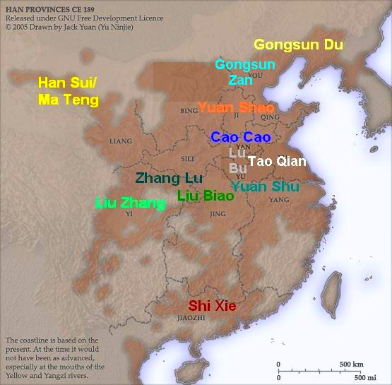 map showing the places of China's Warlord on the eve of the Three Kingdoms period.